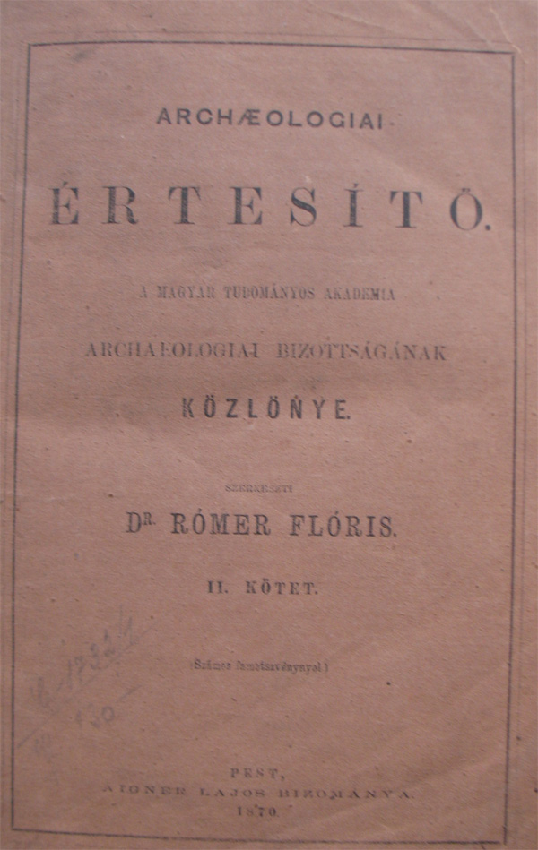 Archaeologiai Értesítő II 1870